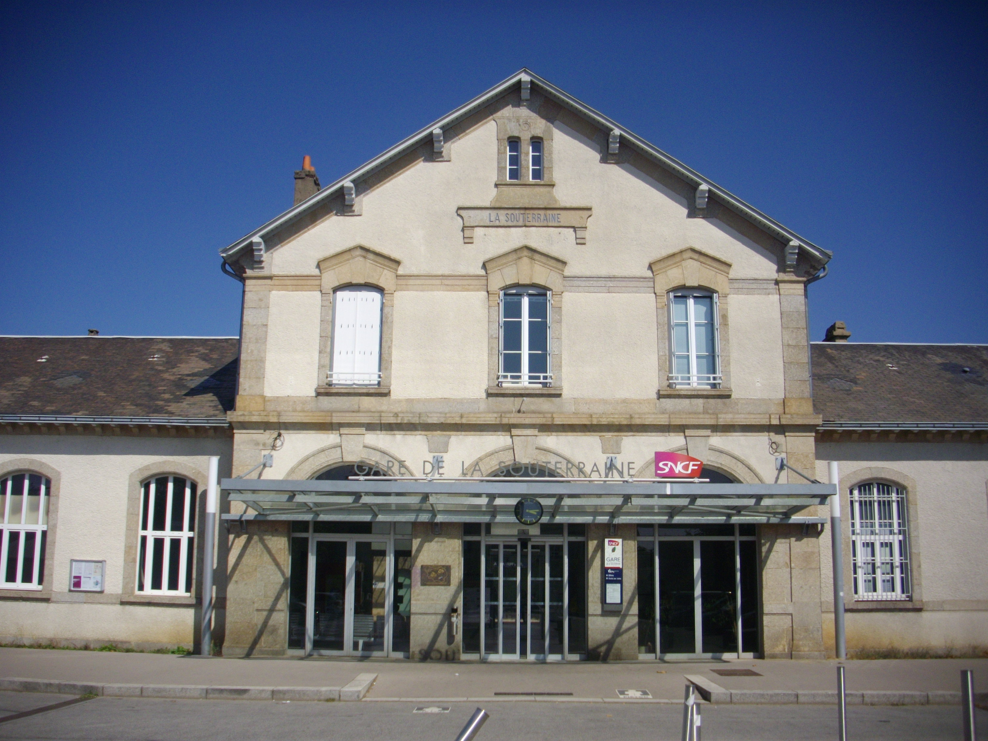 Train station of La Souterraine (Creuse, France)